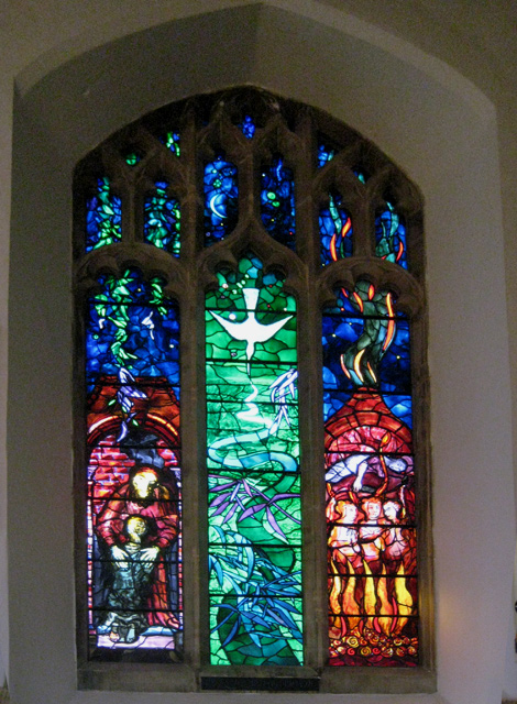 Benjamin Britten memorial window ... ... designed by John Piper, on the north wall of SS Peter & Paul, Aldeburgh.